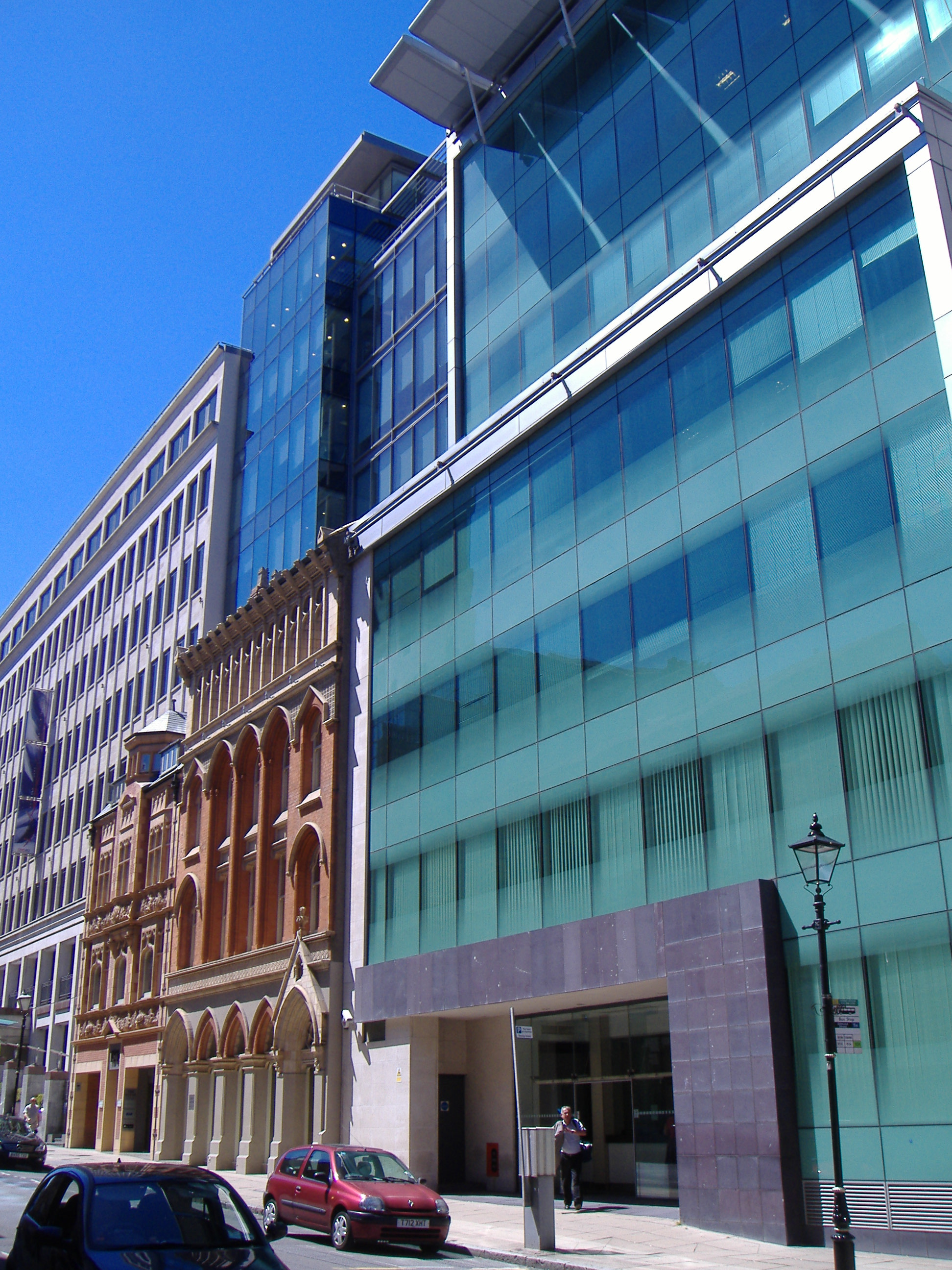 This is a recent development on 134 Edmund Street by Opus in Birmingham.